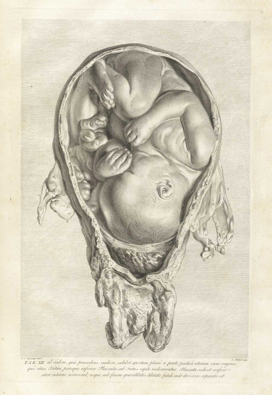 A drawing from William Hunter's The anatomy of the human gravid uterus exhibited in figures (1774)